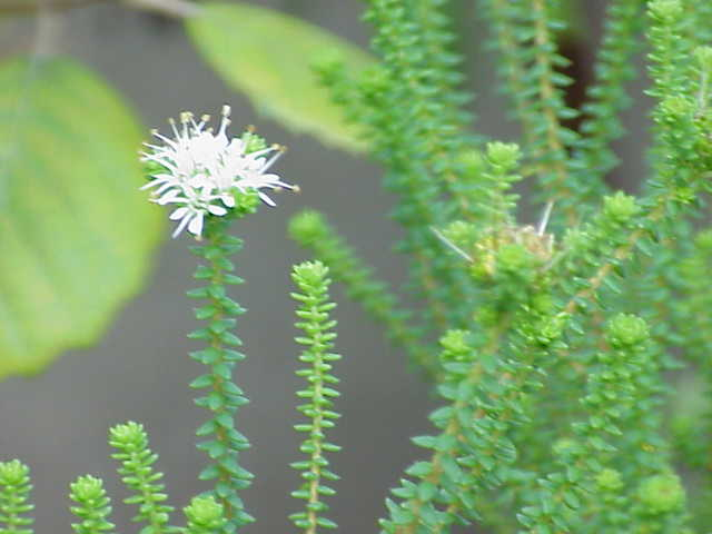 Species: Agathosma apiculata Family: Rutaceae Image No. 1